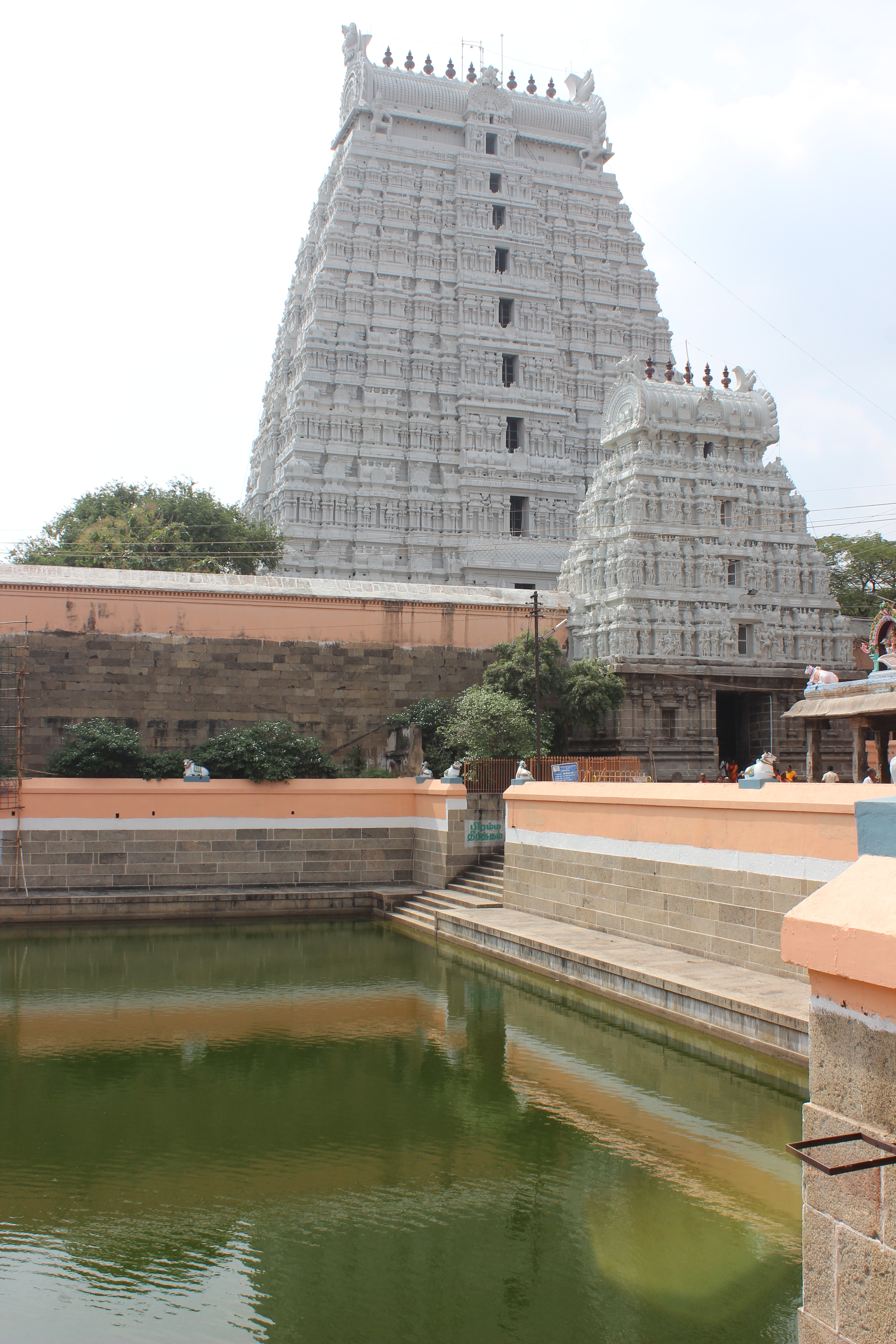 Thiruvannamalai Annamalaiyar Temple Gopurams